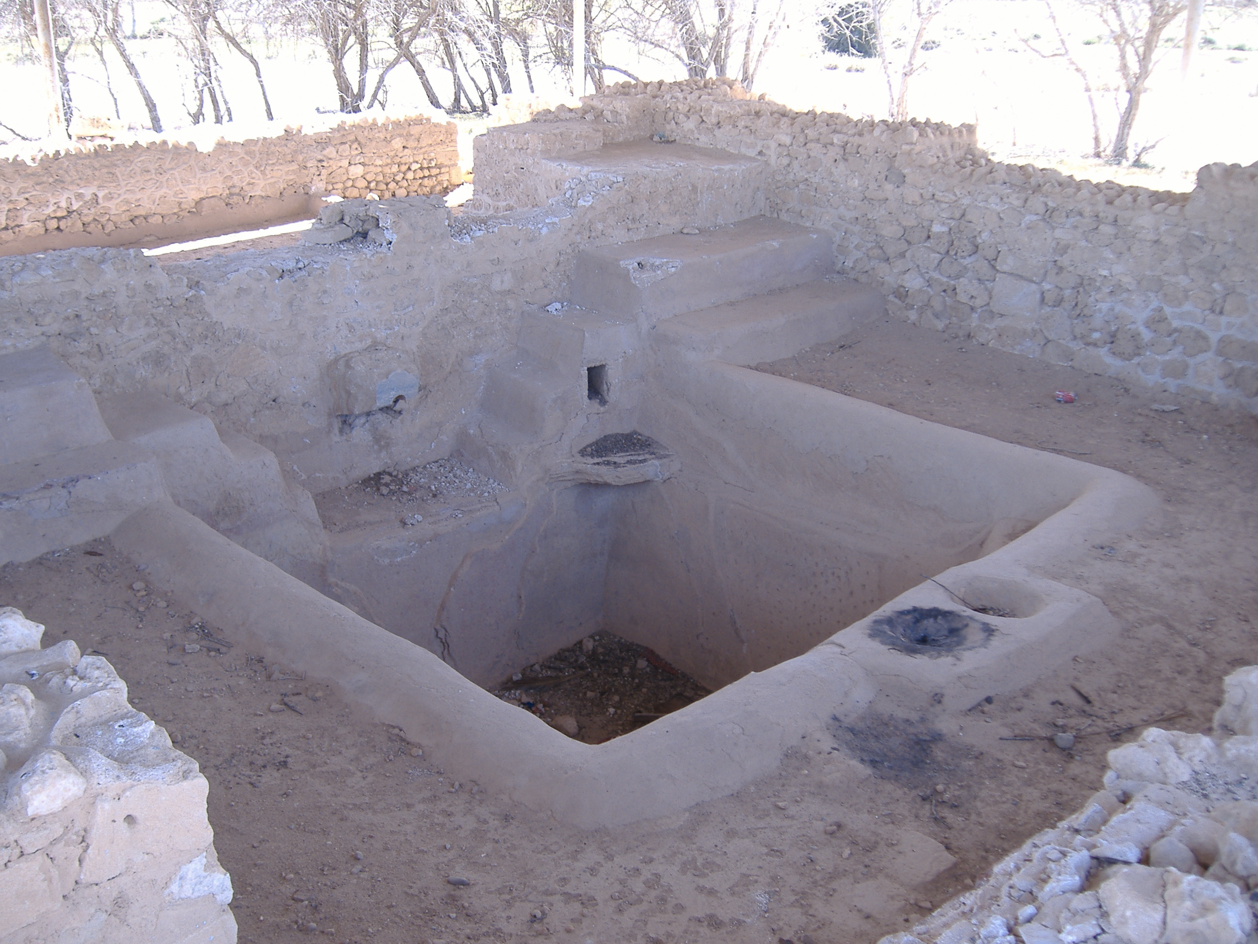 From Author:"AWIB-ISAW: Marea (I) A wine press in the vicinity of Marea. by Nicola Aravecchia (2007) copyright: 2007 Nicola Aravecchia (used with permission) photographed place: (Marea) [1] Published by the Institute for the Study of the Ancient World as part of the Ancient World Image Bank (AWIB). Further information: [2]."